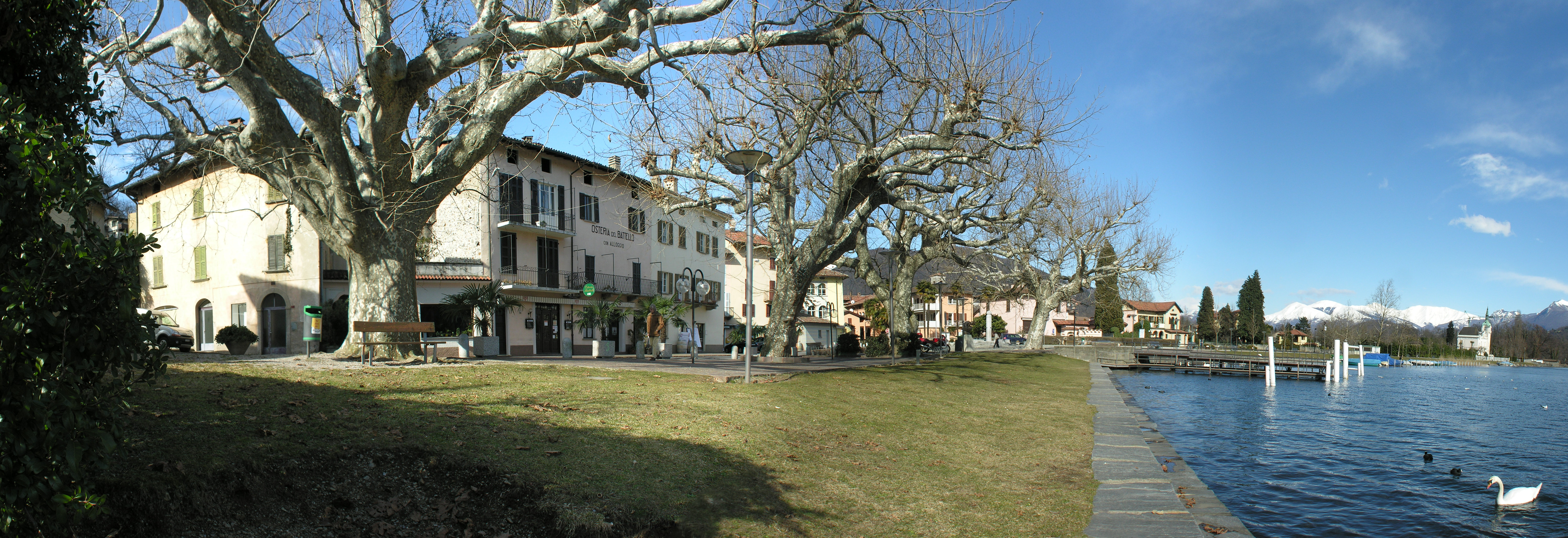 A Hugin stiched sequence of four images of Caslano downtown, Tessin, Switzerland